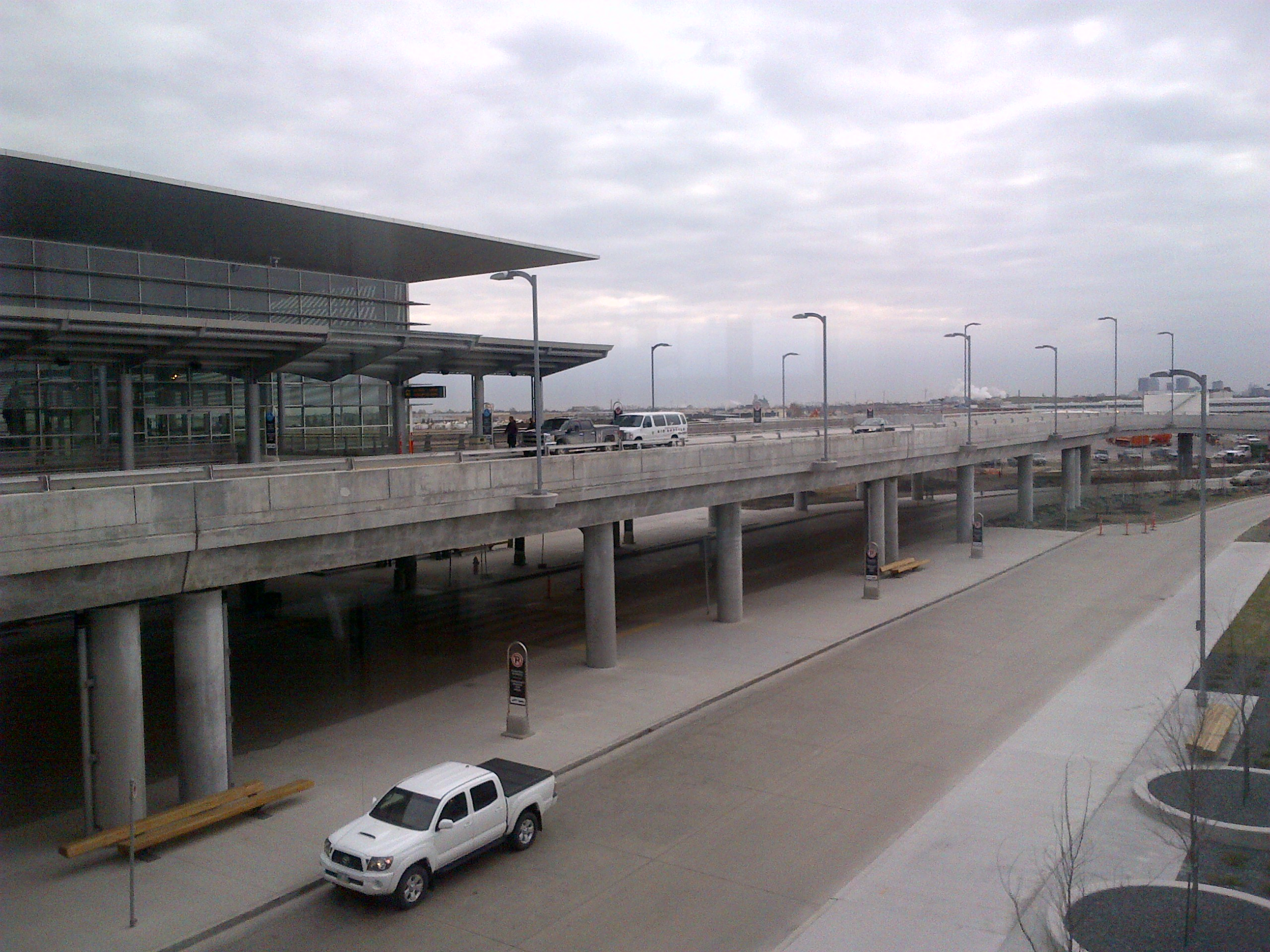 Winnipeg James Richardson Airport Terminal building